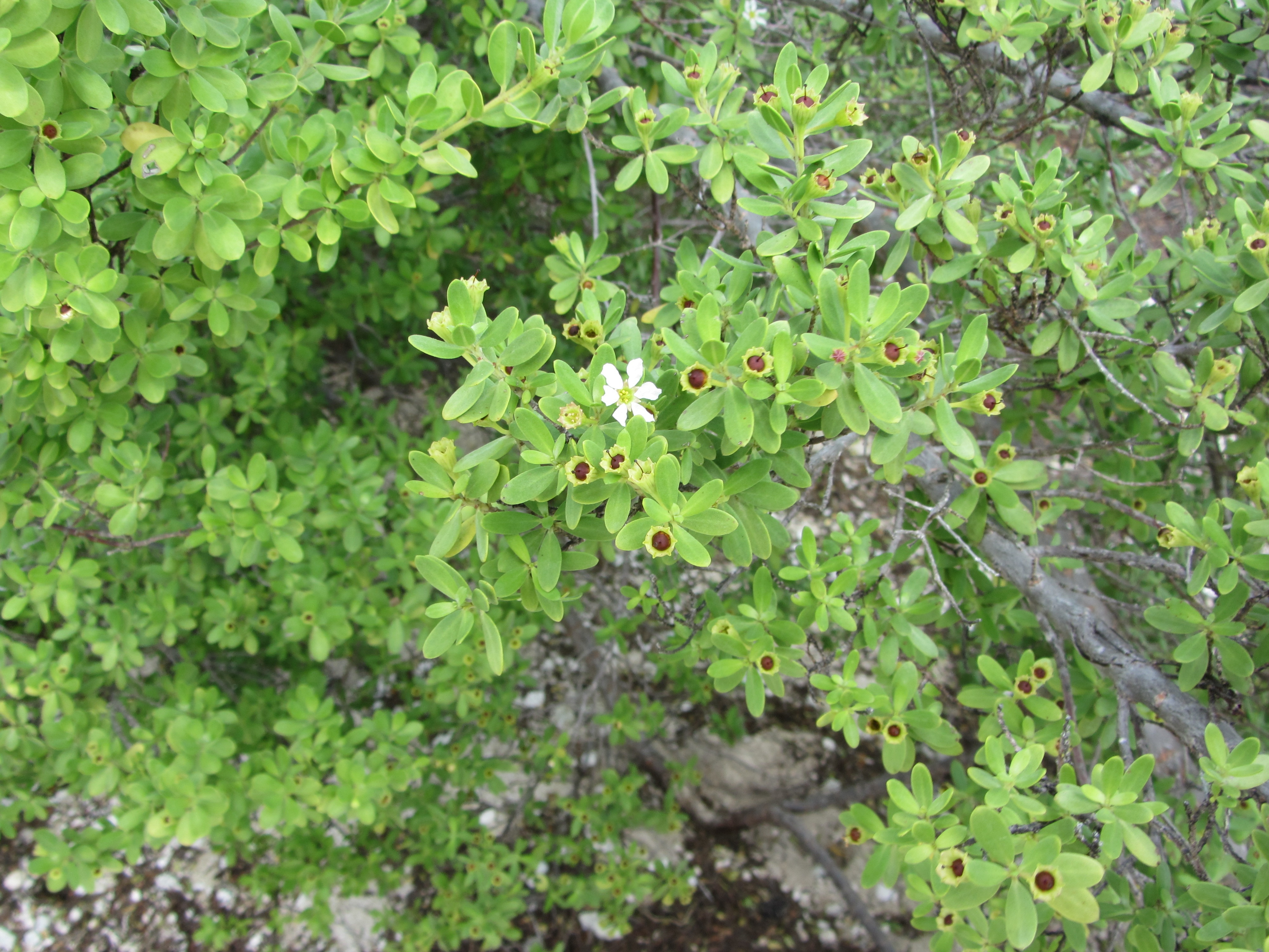 Many of these around the motu, 1-2 m tall.